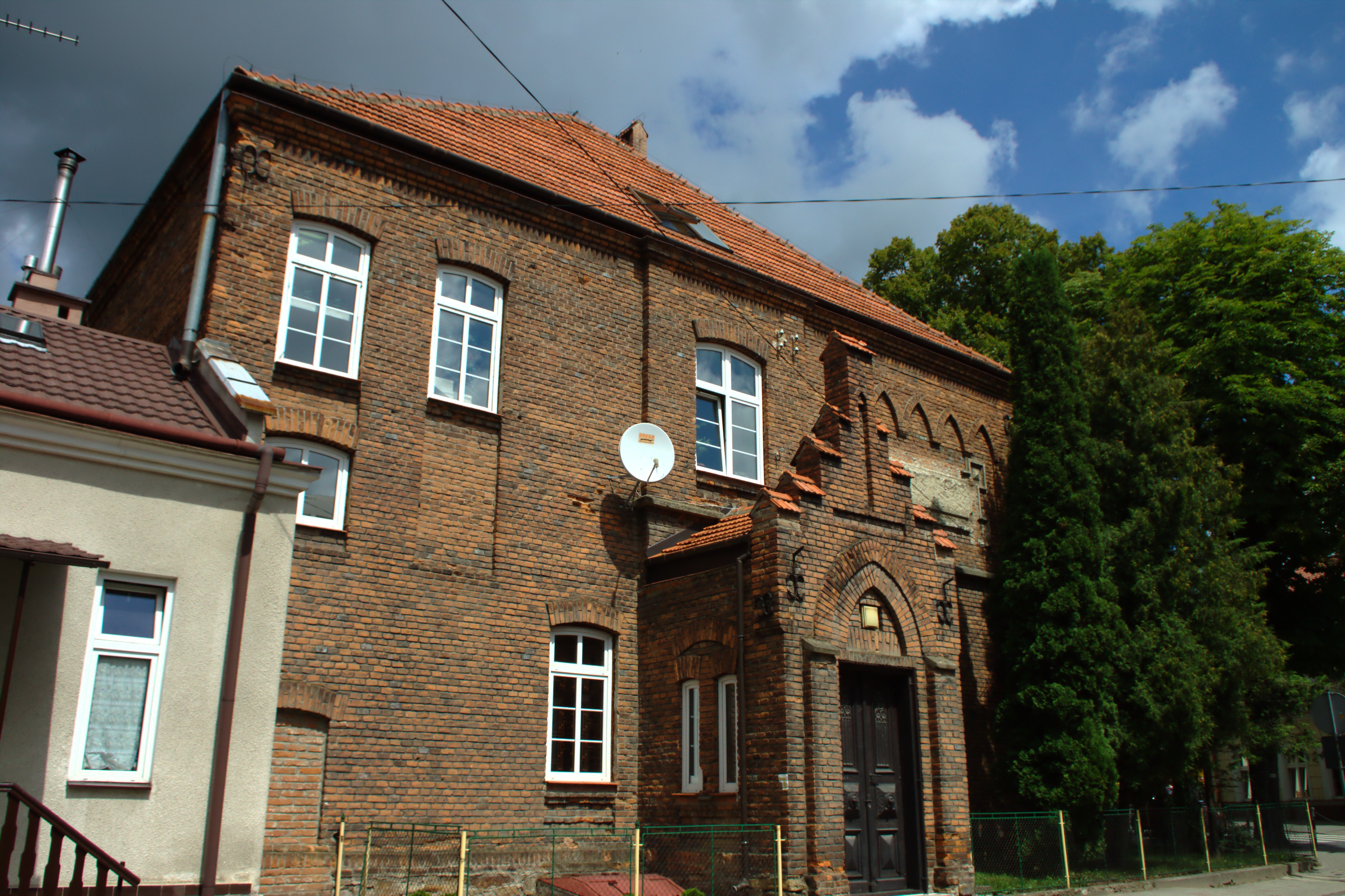 A house in the central part of Dynów, Podkarpackie voivodeship, Poland